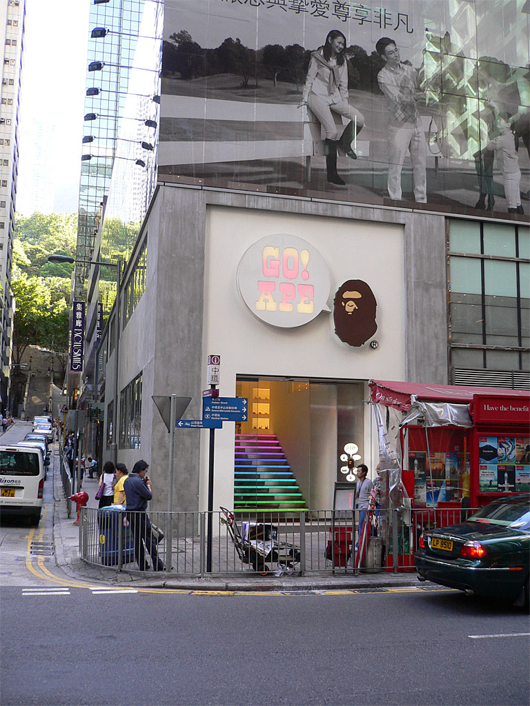 A Bathing Ape shop in Queens Road Central, Central, Hong Kong